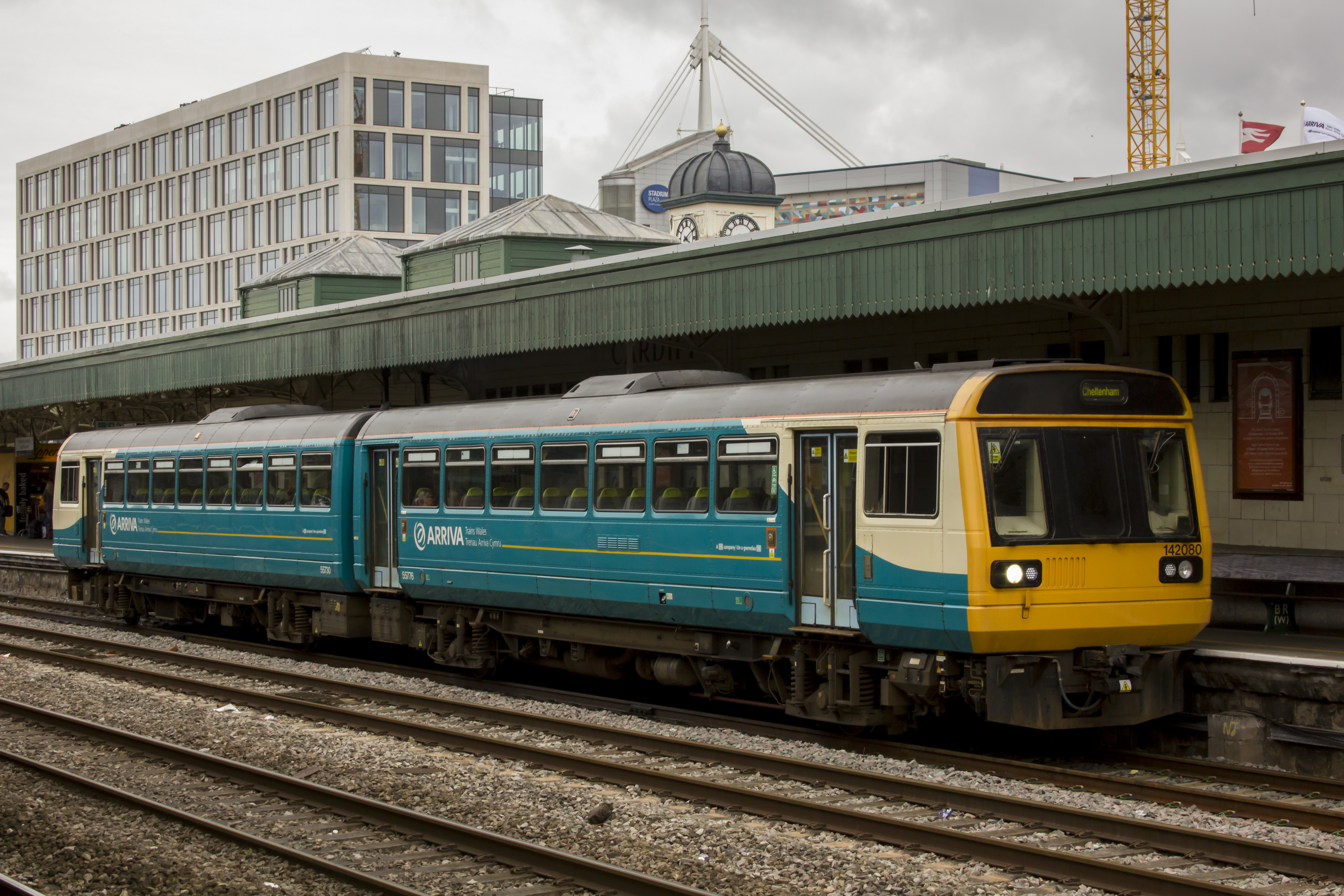 Arriva Trains Wales' class 142 Pacer DMU 142080 stands at Cardiff Central with a service for Cheltenham Spa.